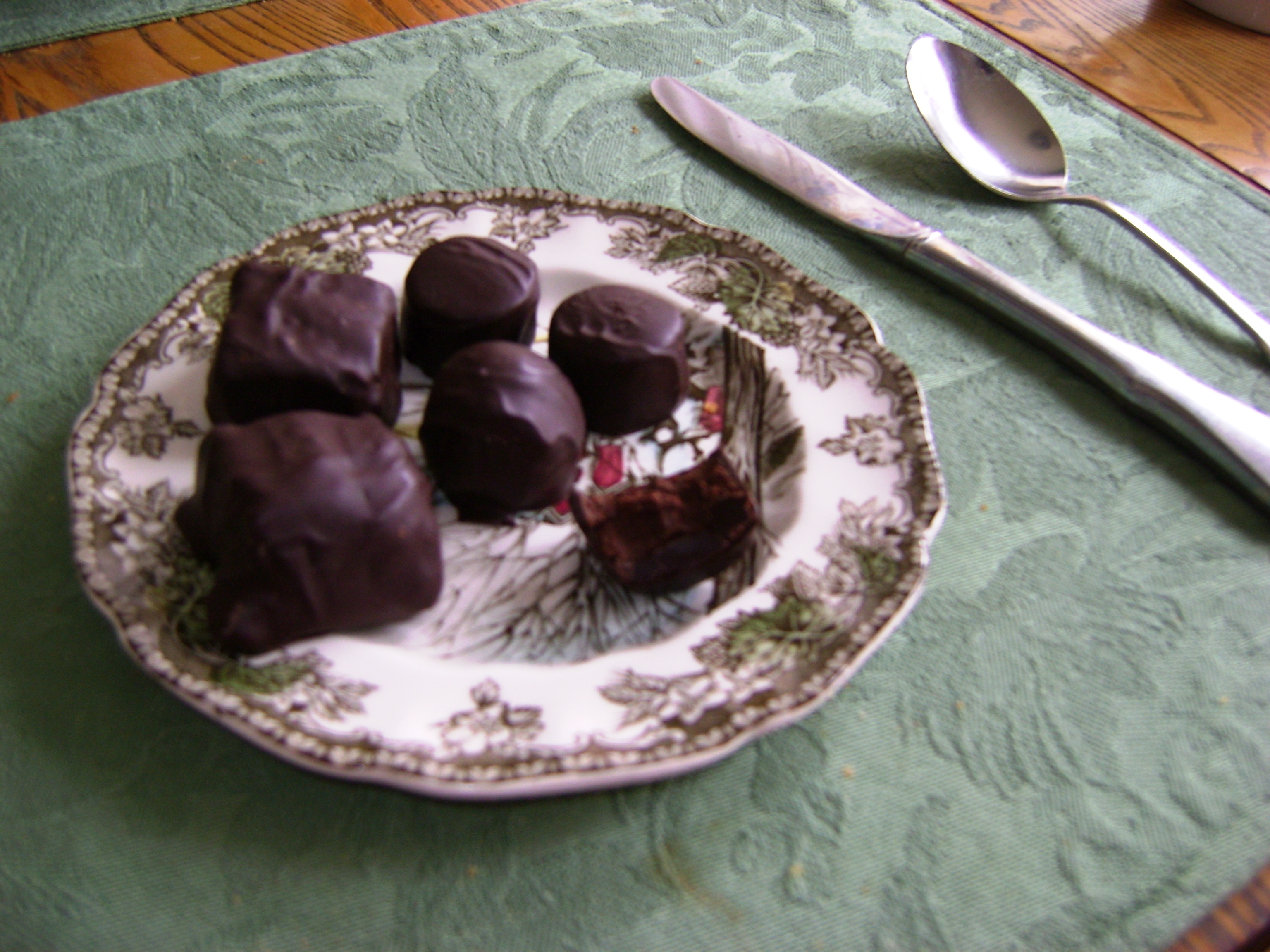 A photo of bourbon balls on a plate